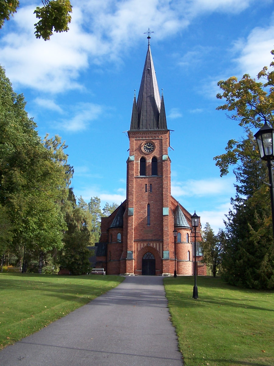 Alnö church, Sundsvall, Sweden